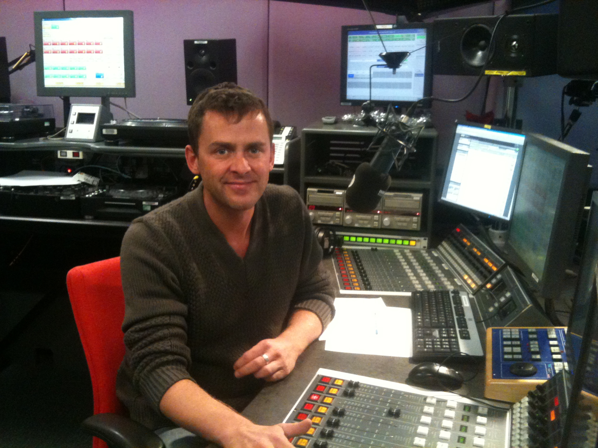 British radio DJ Scott Mills at the BBC Radio 1 studio (Yalding House, London, UK)